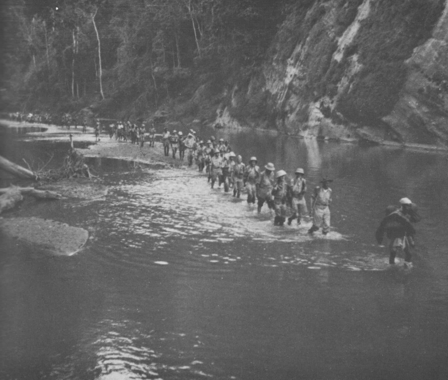 Stilwell, preceded by a guide, leading the column down the Uyu river, 1942.